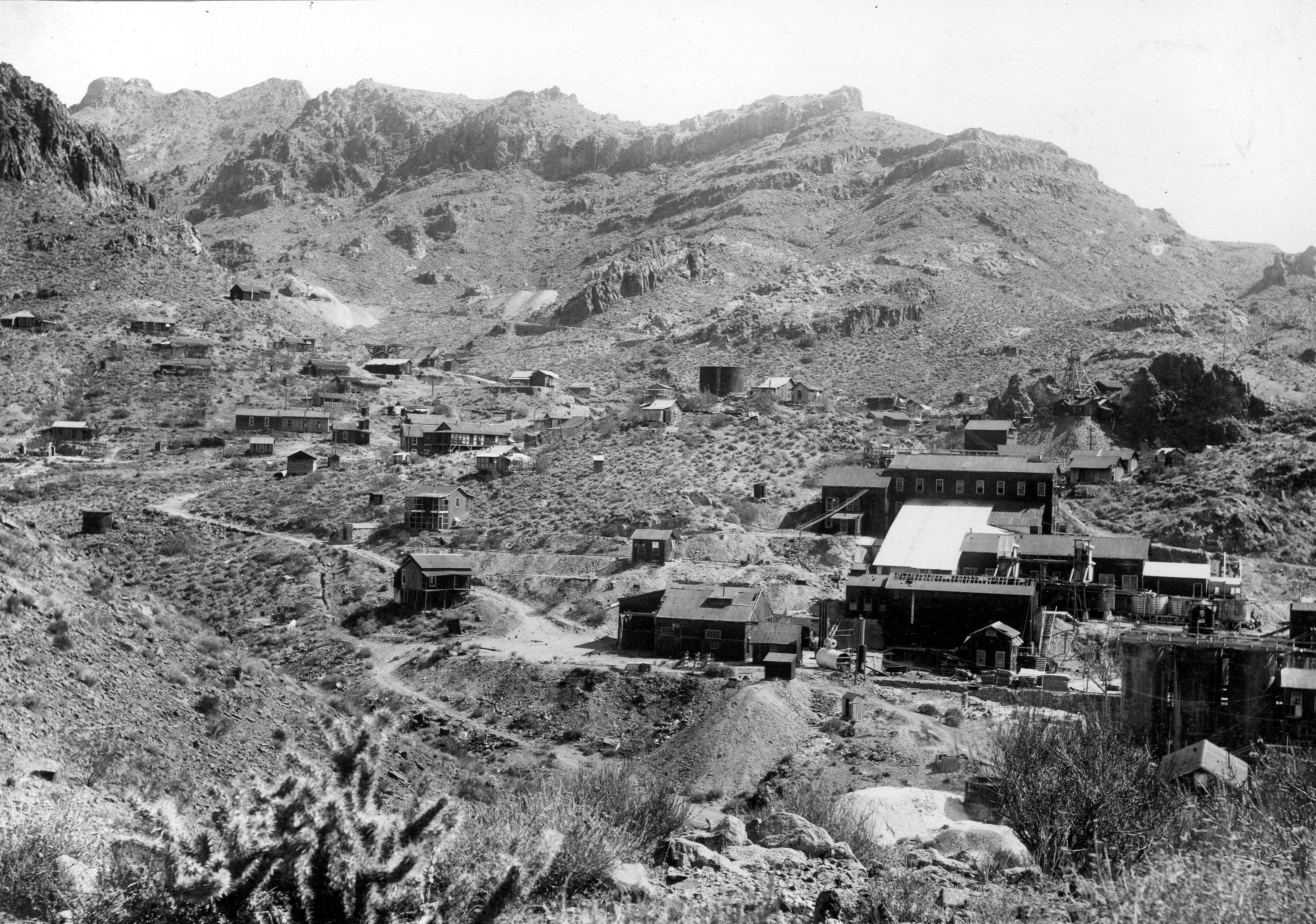 Mines of the Oatman district; Up Gold Road Gulch, showing the surface relations of the Gold Road mine, right to left the following are identified; Gold Road Mill, No. 1 shaft, and No. 3 shaft. All the rock included in the view is the Gold Road latite. The generally easterly dip of the flows is distinctly shown. Mohave County, Arizona. 1921.